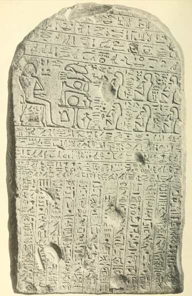 Stela of Sebek-khu, the earliest record of an Egyptian campaign in Asia (1914)